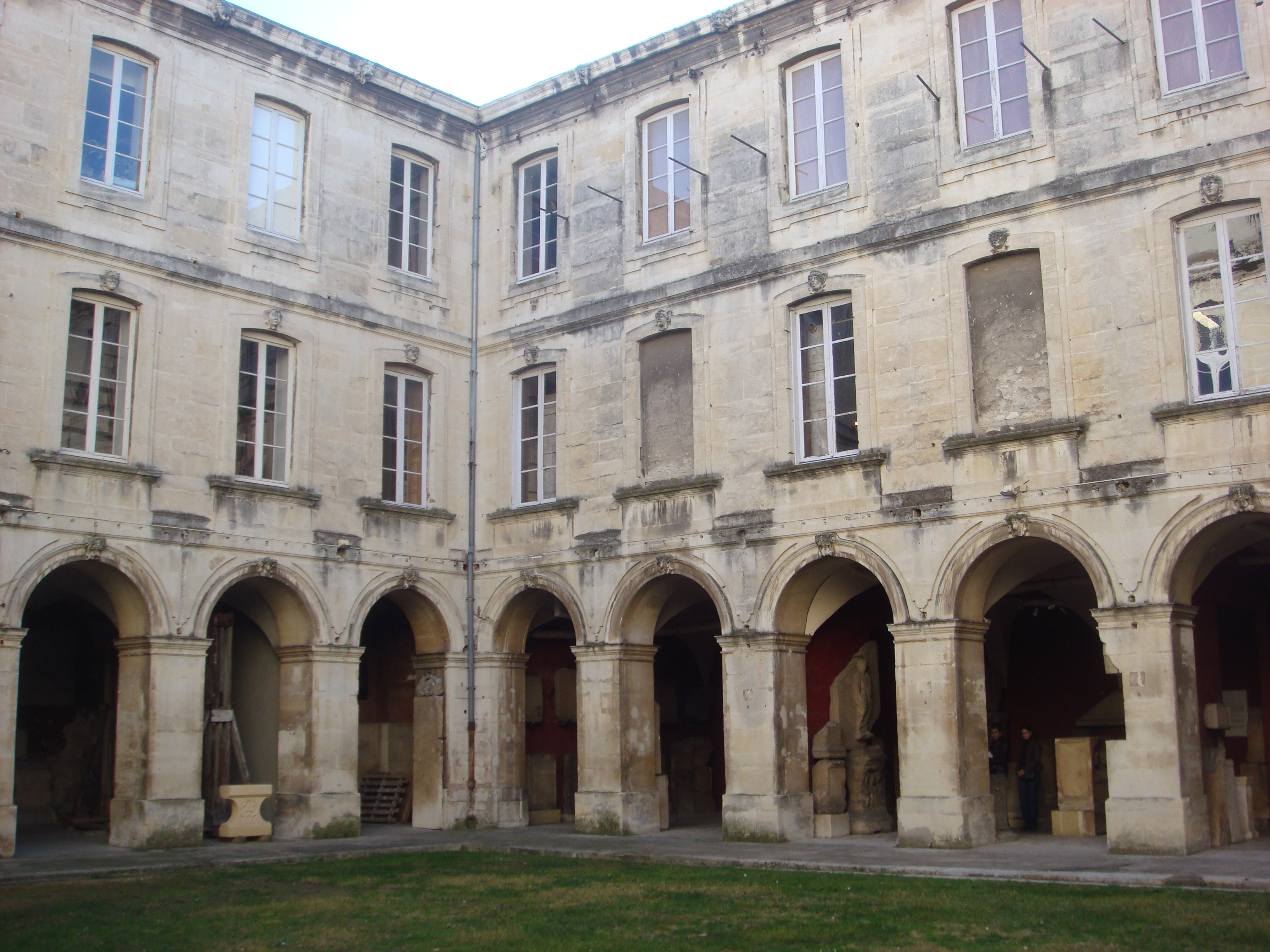 Cloister of the former Jesuits college in Nîmes (Gard, France).